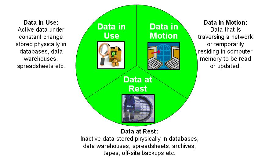 3 states of data: Data in Use, Data in Motion, Data at Rest